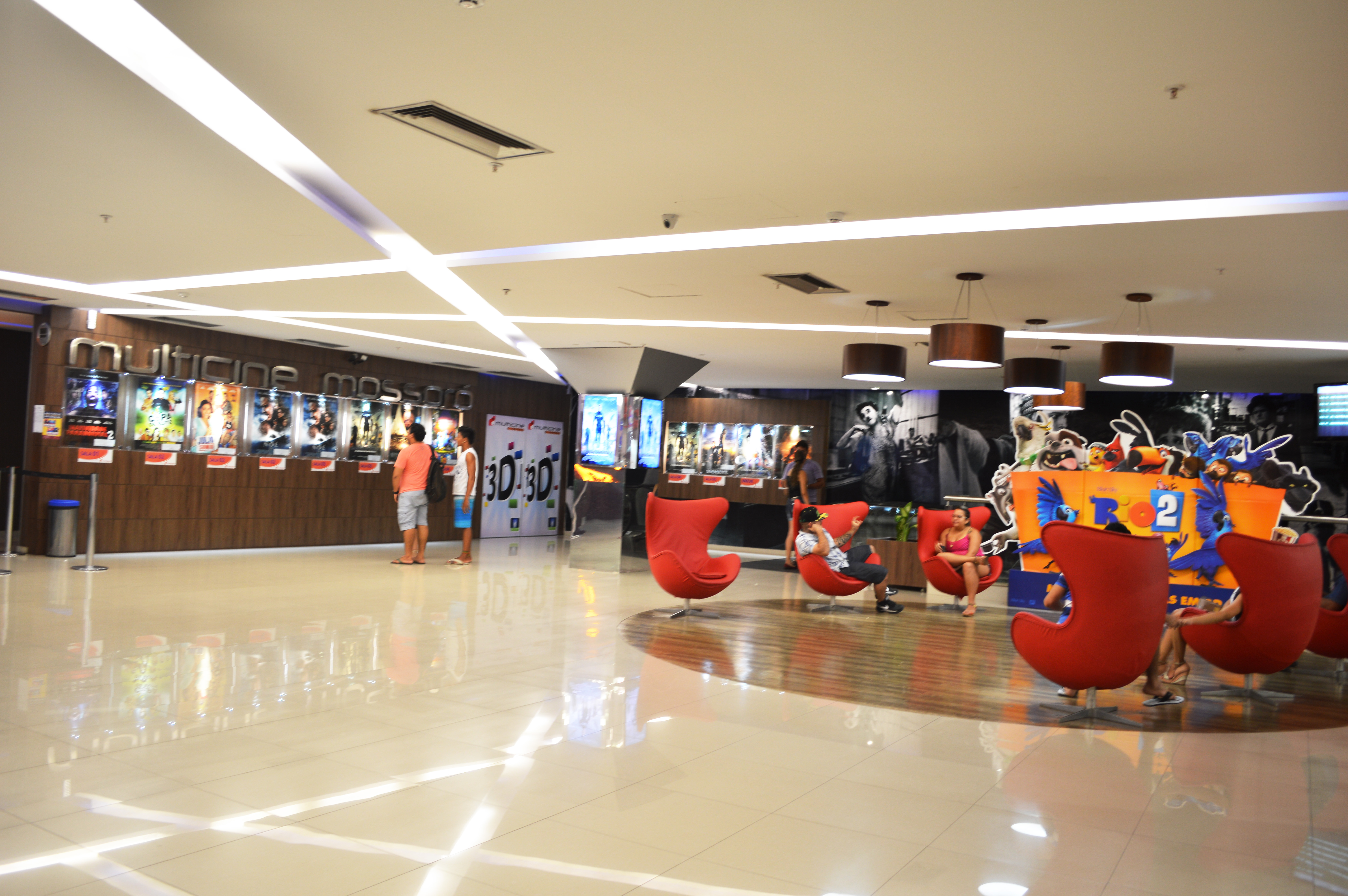 Foto: Valeska Amorim